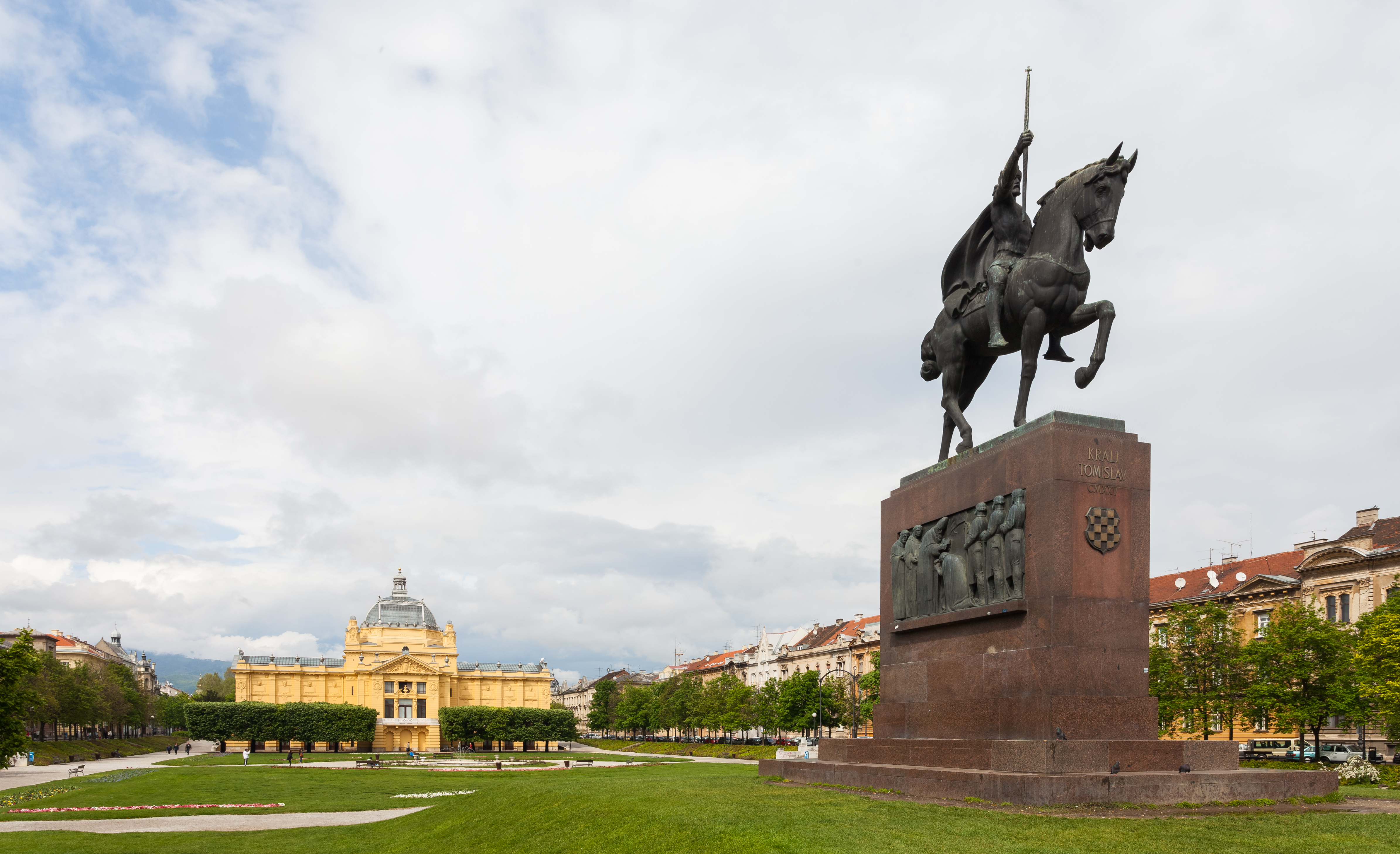 Statue of King Tomislav of Croatia, Zagreb, Croatia